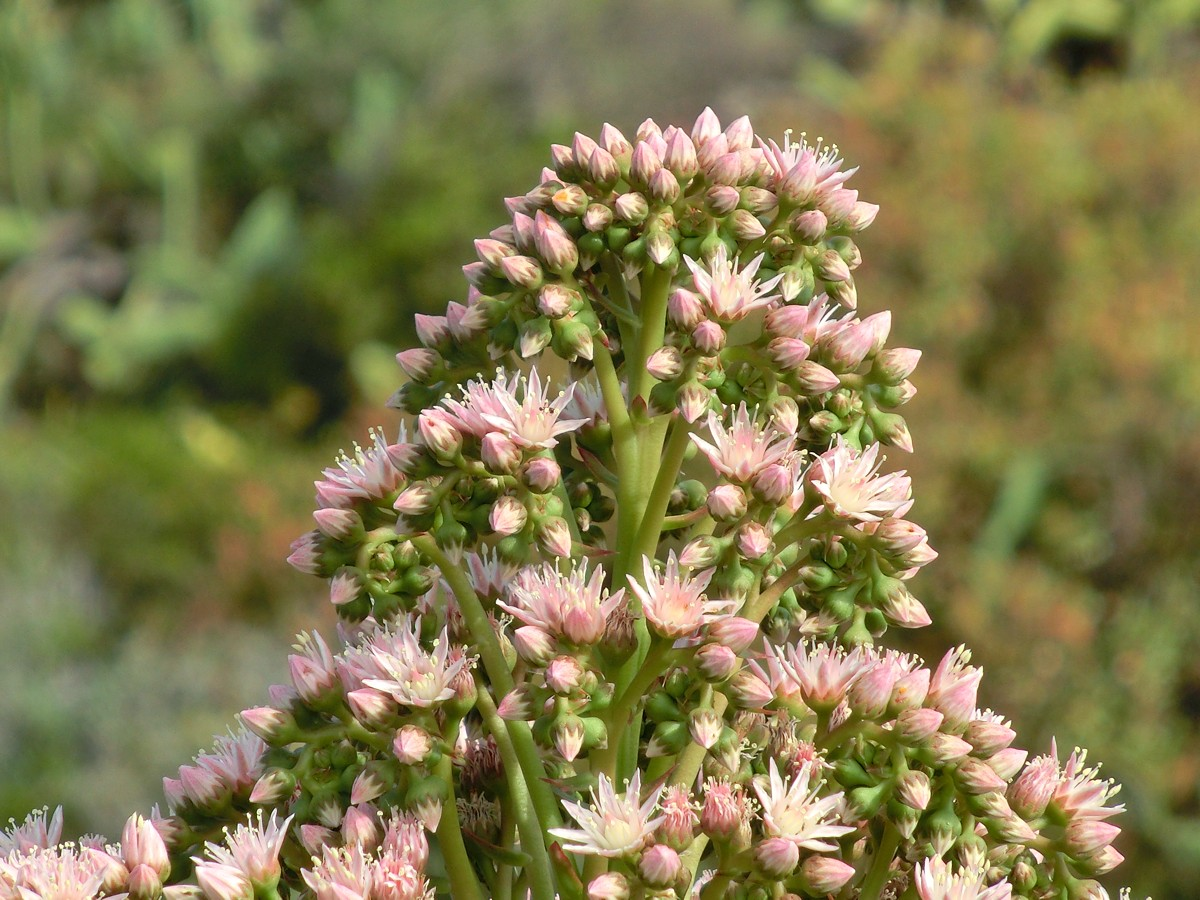 Aeonium urbicum, inflorescence. W Tenerife, SW of Chio, open shrubland at road to Teide National Park, ca. 900 m.